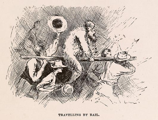 Illustration from Adventures of Huckleberry Finn of the King and the Duke being tarred and feathered and ridden on a rail after attempting to perform "The Royal Nonesuch."